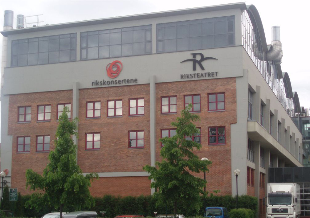 Norways national conserts and theater are responsible to make conserts and theater availible to everyone in Norway. In Norwegian: Hovedkontor for Riksteatret og Rikskonsertene i et sambygg Nydalen i Oslo (Gullhaug Torg 2).